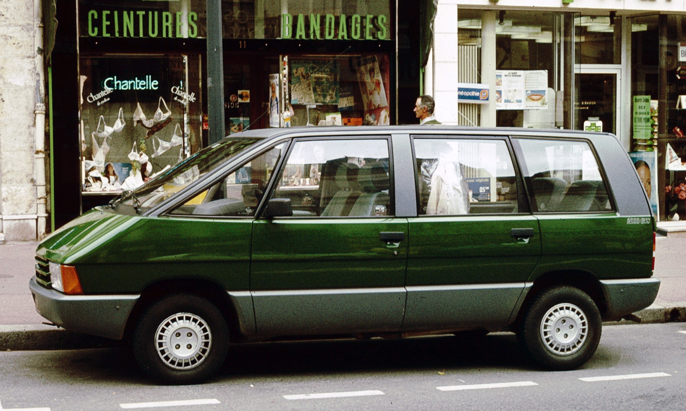 Renault Espace shortly after launch